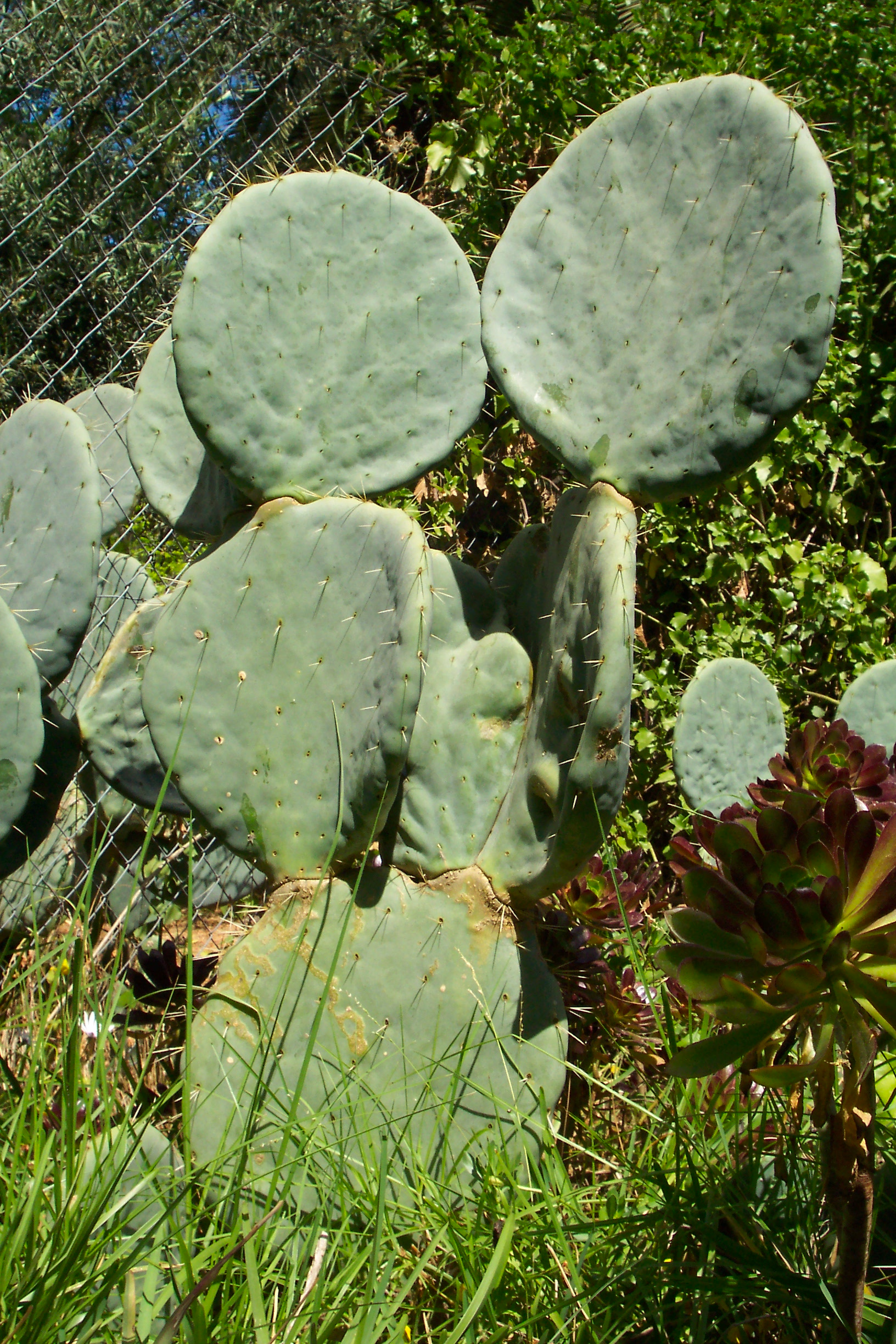 Cirsium